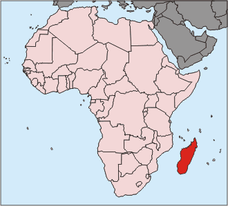 Position of Madagascar